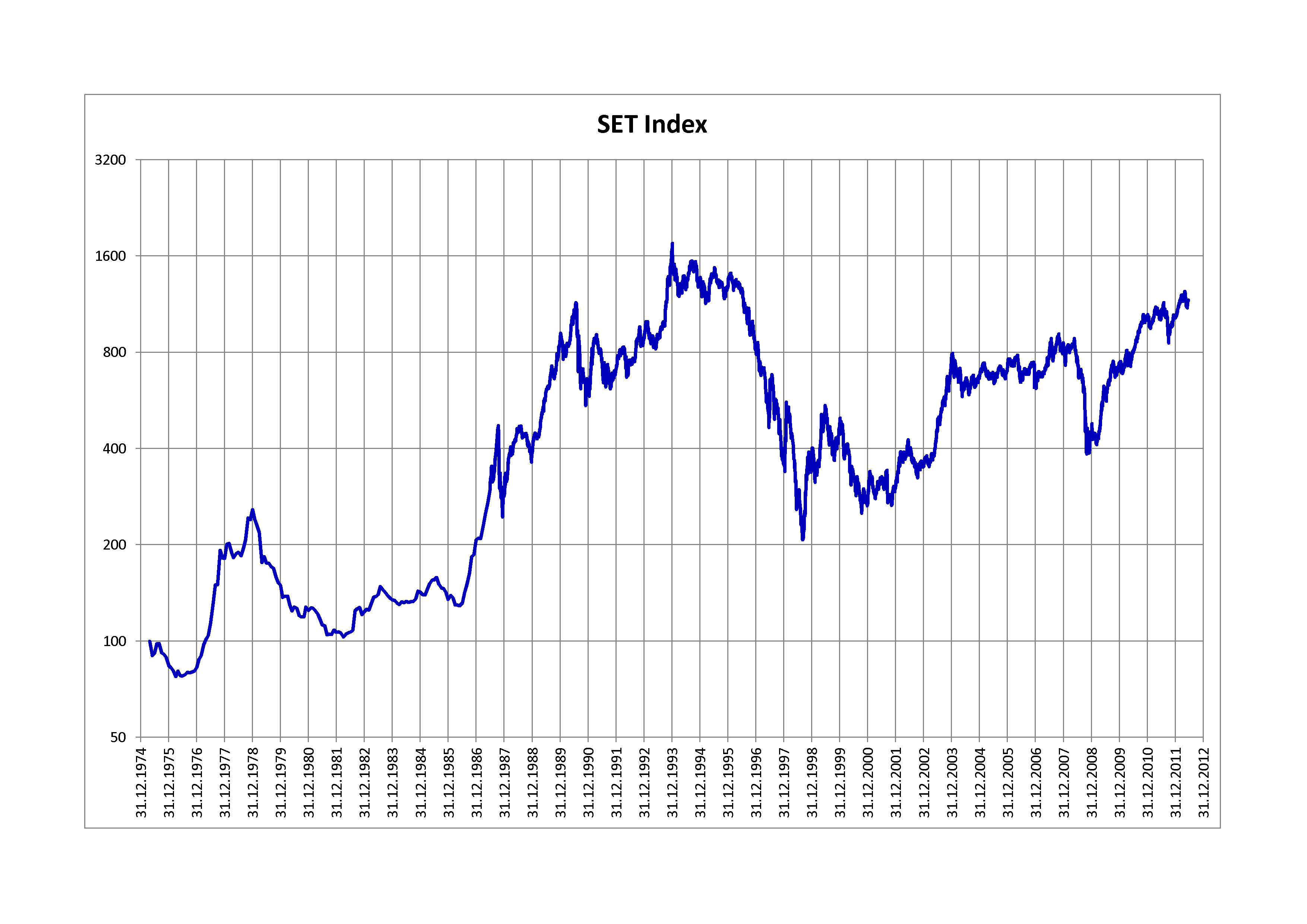 SET Index from April 1975 to June 2012 (daily closings)